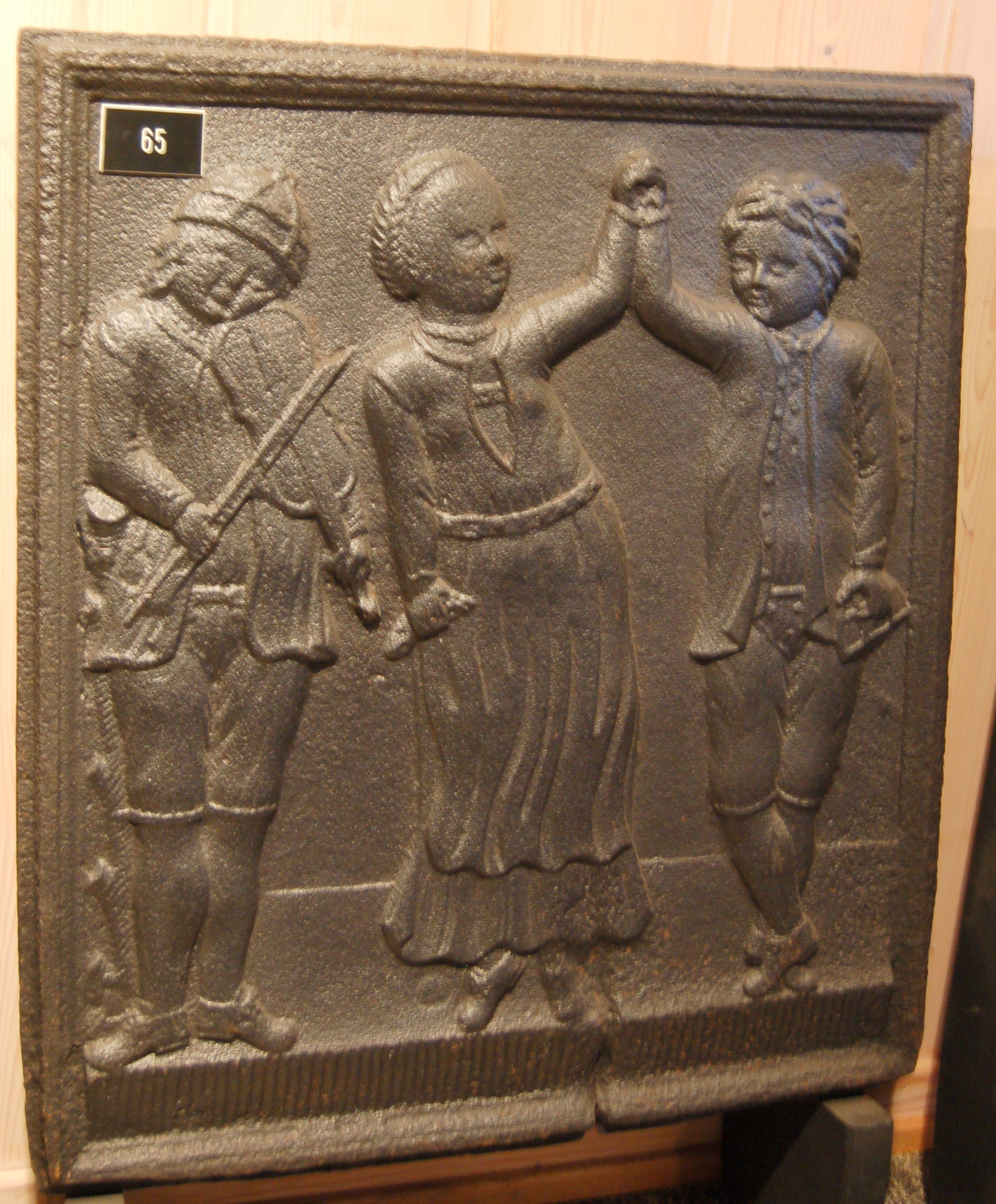 Folk dance - stove plate